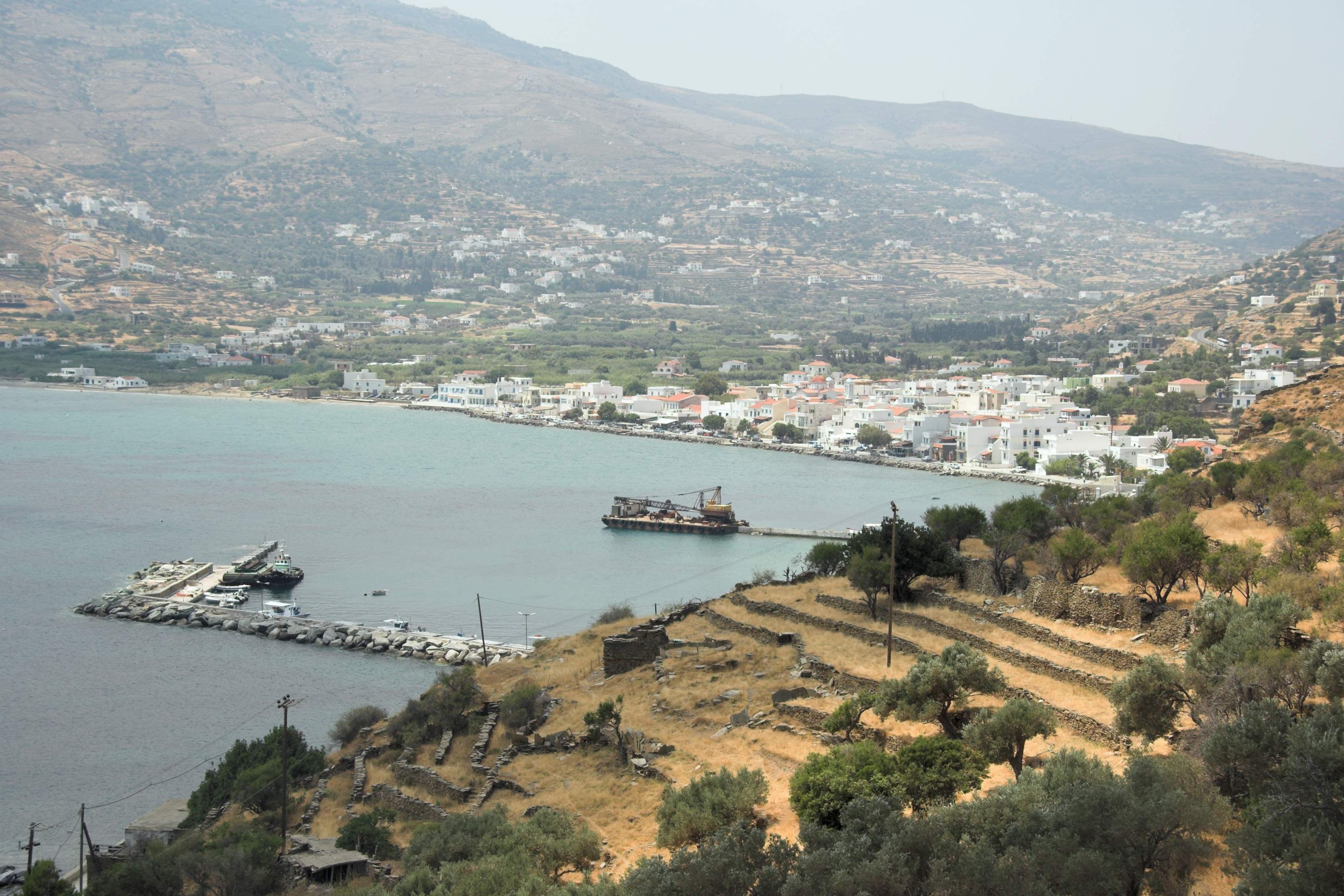 Ormos Korthiou from a trip to the beach Pidimos Grias. Andros.